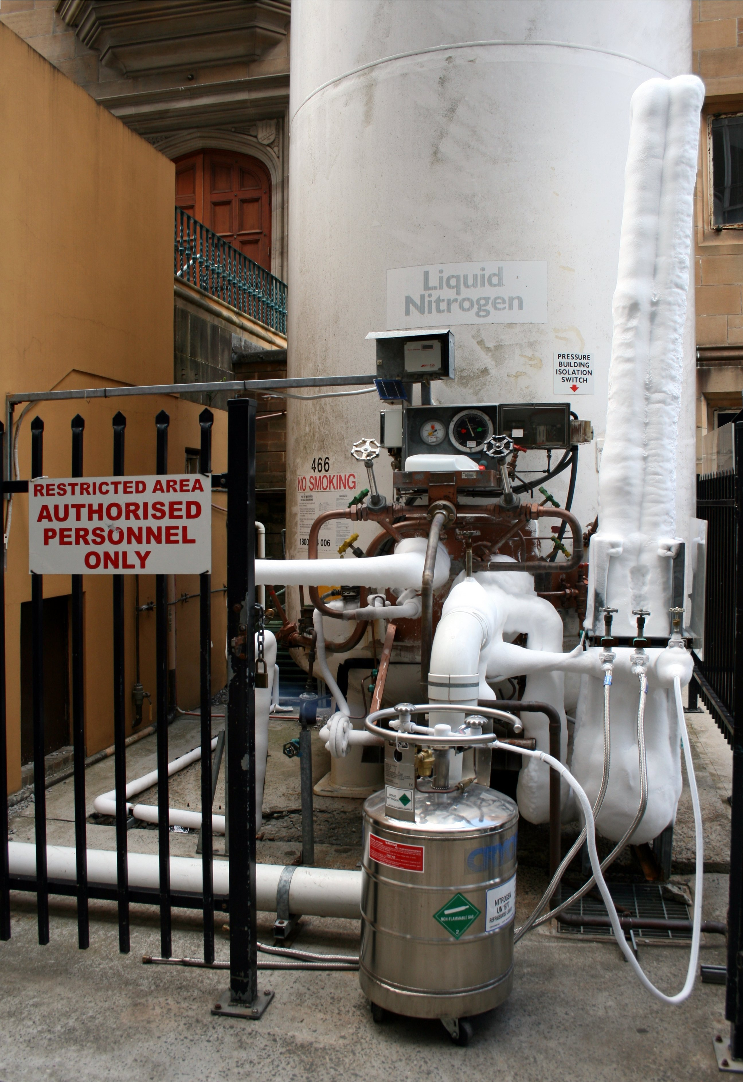 Liquid nitrogen storage facility at the School of Chemistry, The University of Sydney, New South Wales (NSW), Australia. Nitrogen is flowing into the metallic tank/dewar, and a bluish exhaust jet can be seen to the left, which is used to release the pressure of any evaporating nitrogen. The pipes near the main tank, through which the cold nitrogen passes, have accumulated ice by condensation and freezing of atmospheric water.